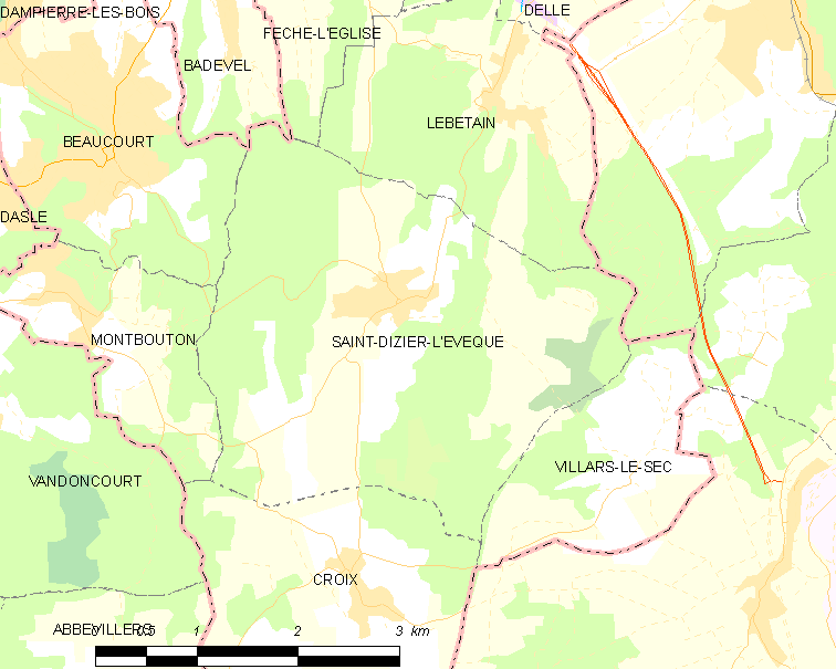 Map of French municipality Saint-Dizier-l'Évêque